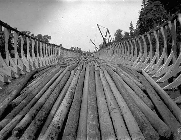 Logs floating inside cradle, Columbia River near Stella, Washington, ca. 1903